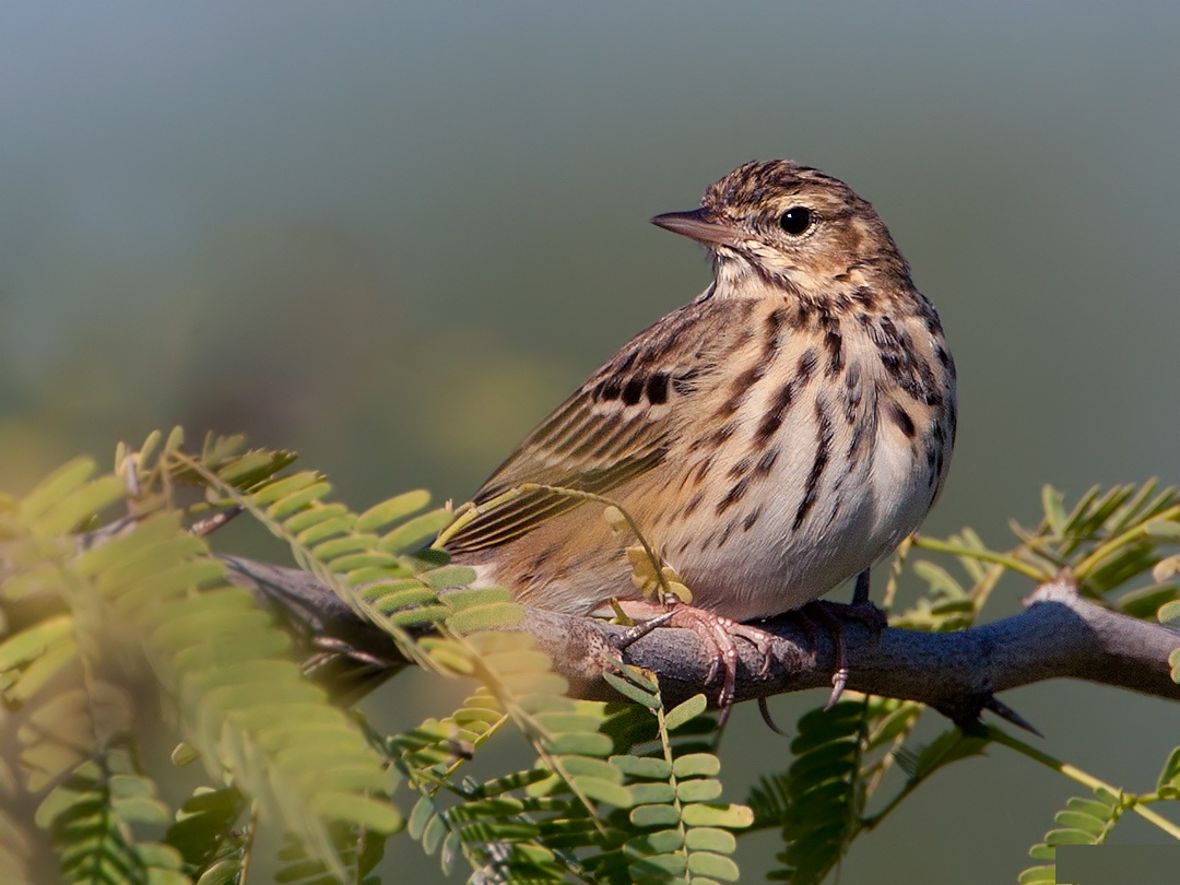 Oriental Tree Pipit photographed at Greater Rann of Kutch by Subramanya CK in December 2010